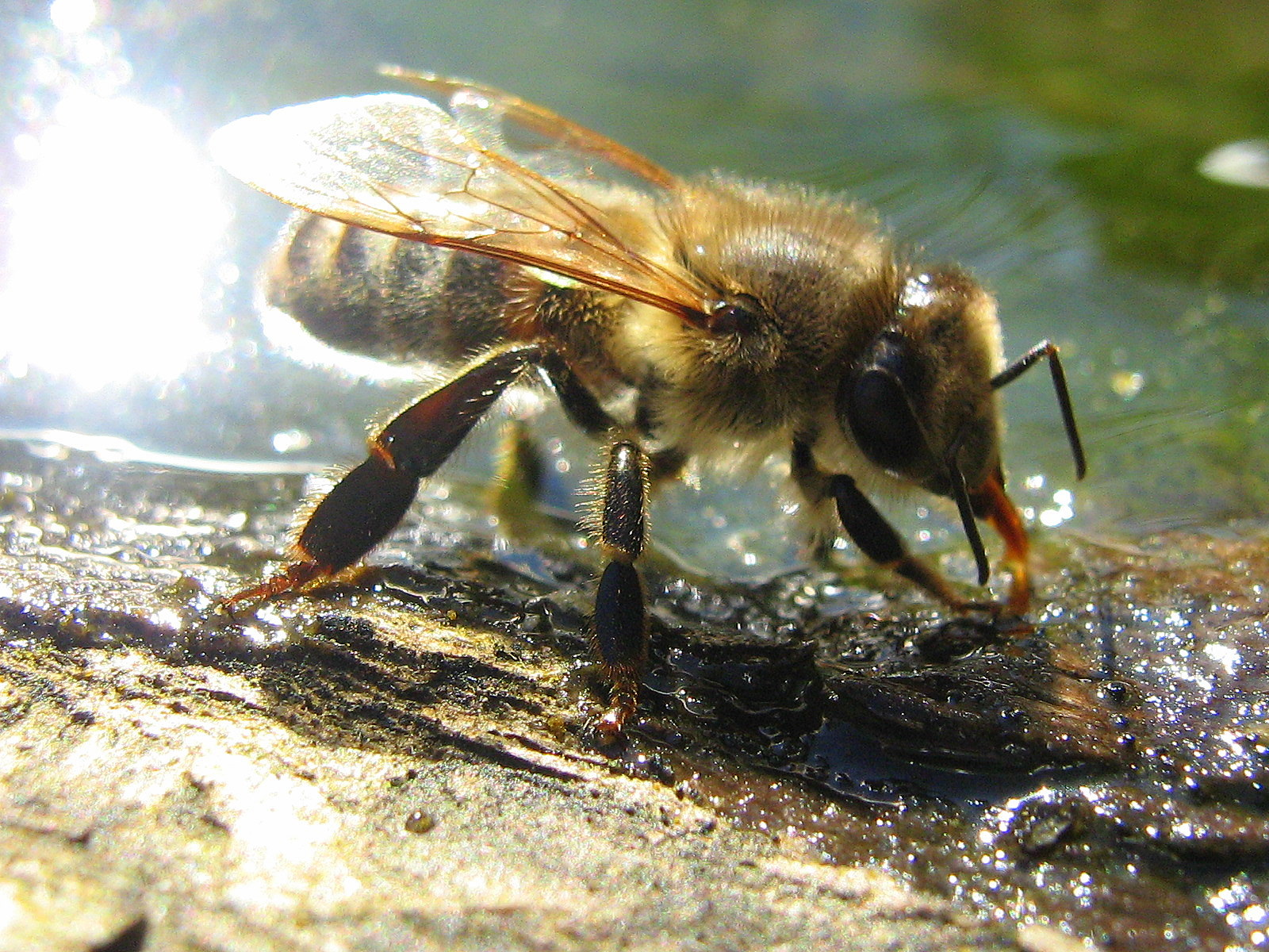 Bee, who drinking water. From apiary Mr. Stanisław Kosiorek (Poland)